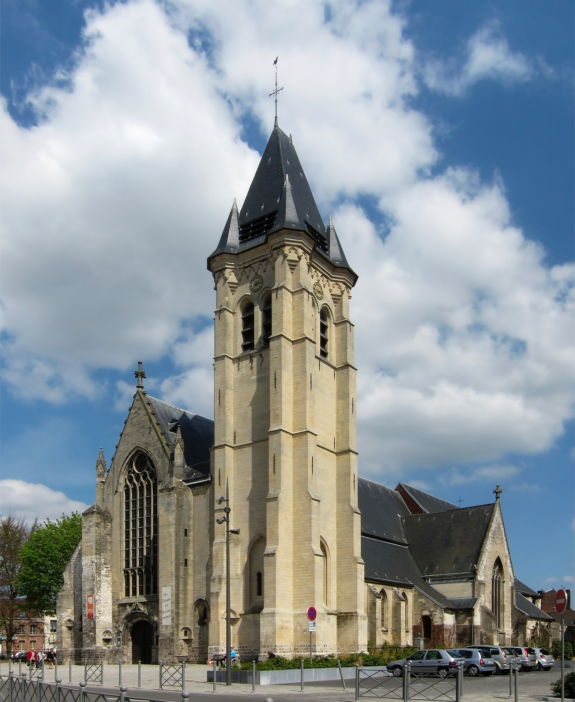 Saint Piatus Church in Seclin, France.